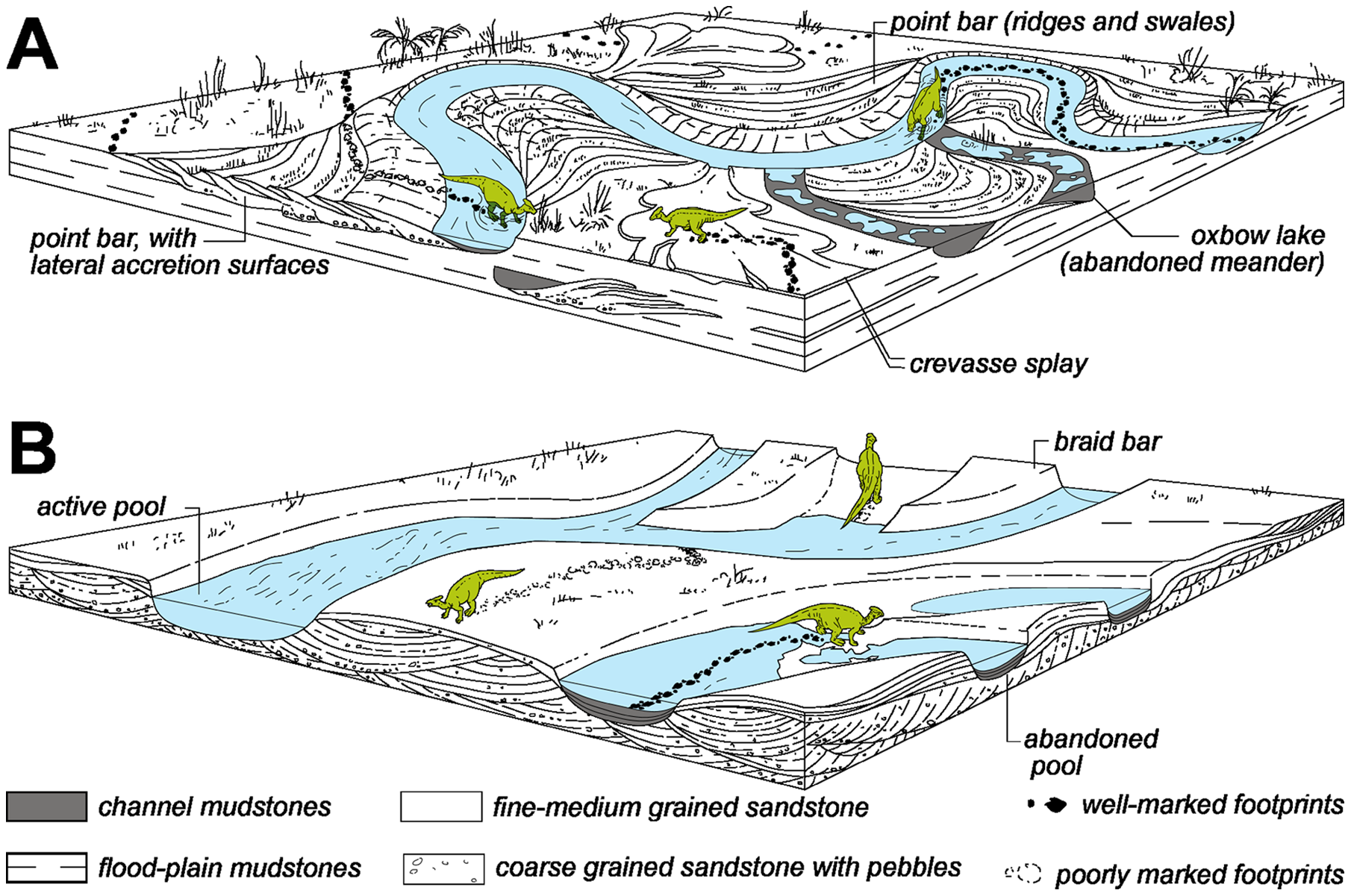 Sedimentary reconstruction of hadrosaur track production in fluvial settings of the Tremp Formation in the southern Pyrenees of Spain. (A) Sedimentary environments in meandering streams. (B) Sedimentary environments in braided streams.